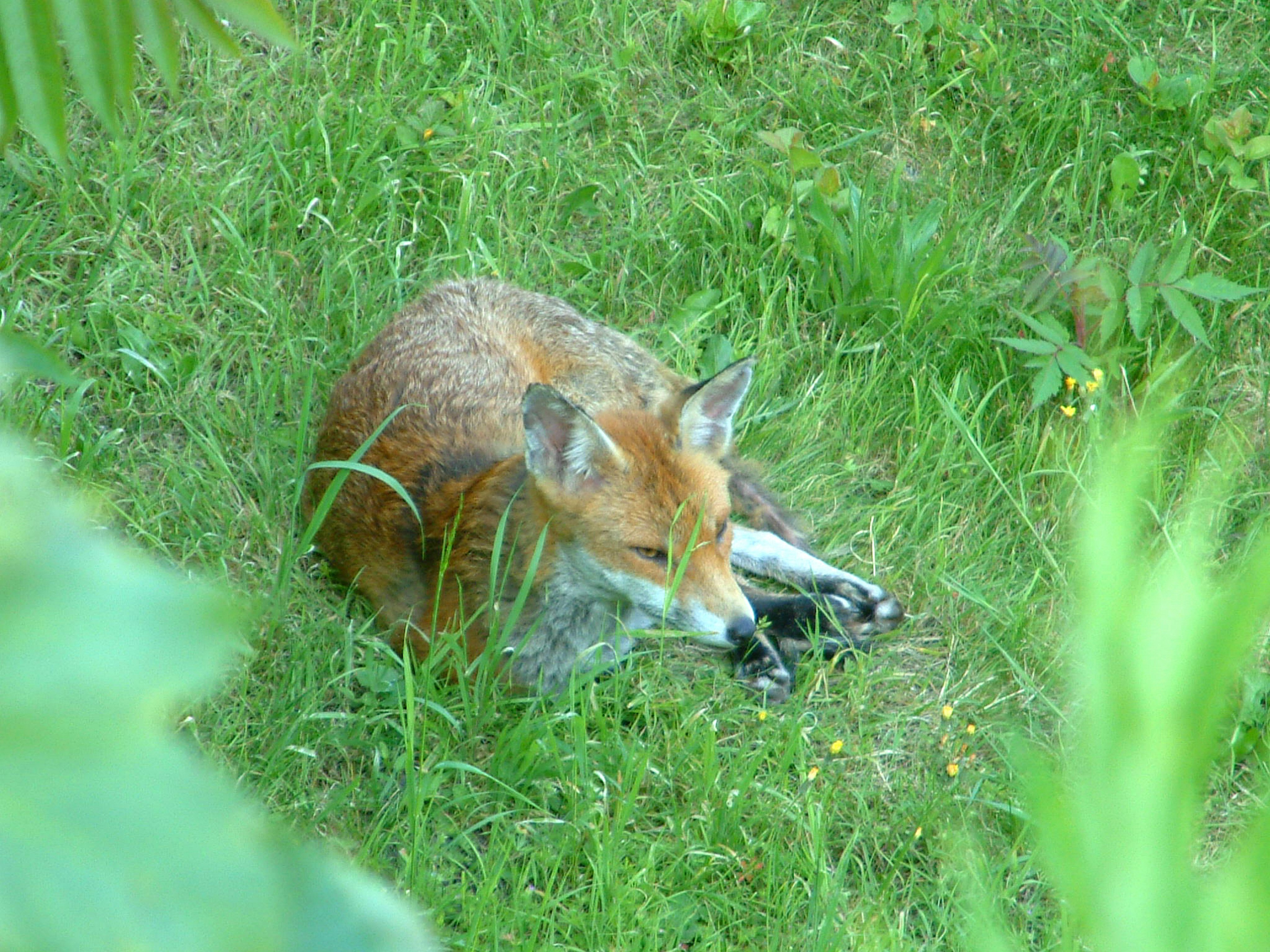 Red fox on grass